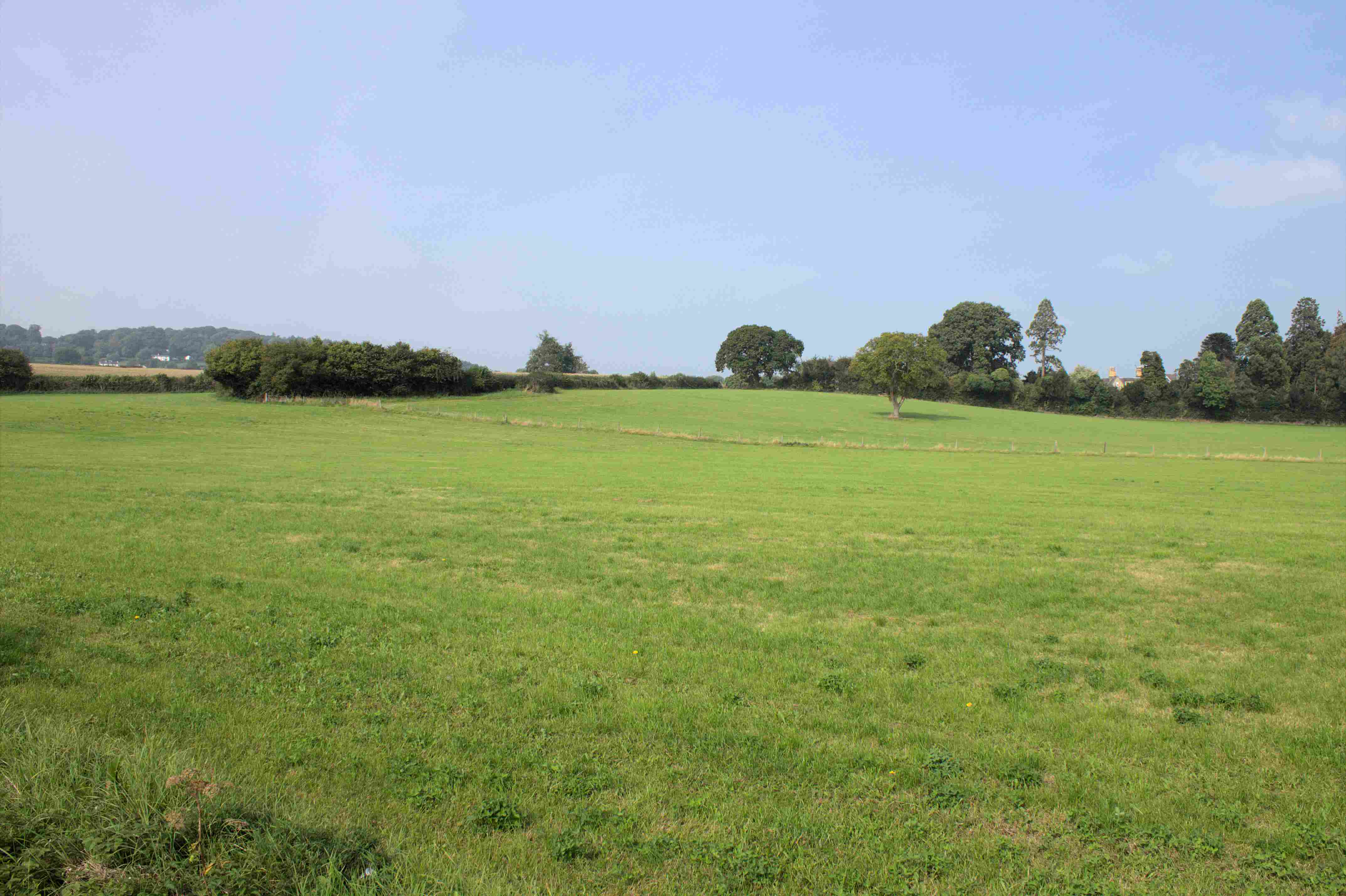 Gold cape field, Yr Wyddgrug (Mold).